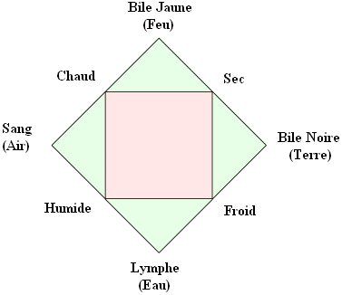 The four classical elements, after Aristotle.